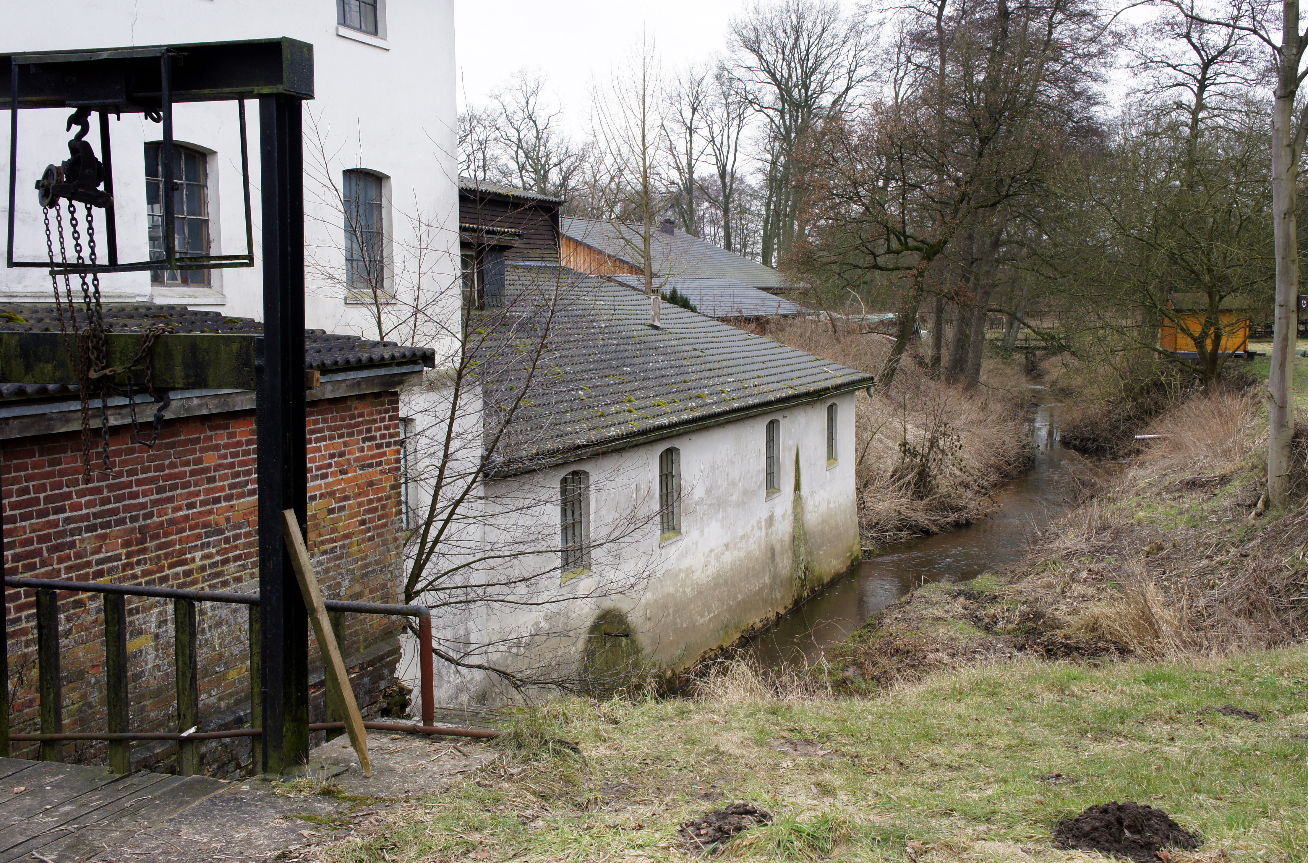 Watermill at Altonaer Mühlbach